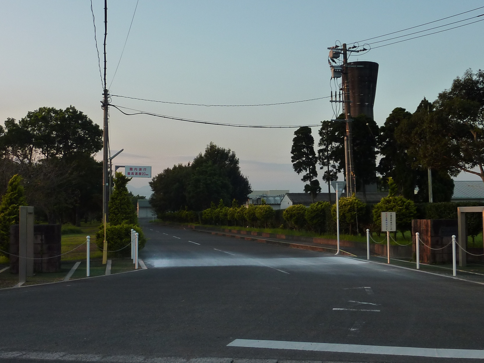 Hoshizuka Keiaien Sanatorium (Kanoya City, Kagoshima, Japan)